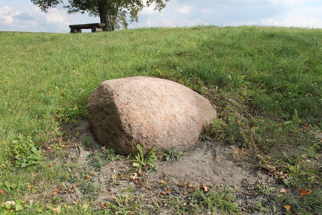 Rudamina Hillfort, Lazdijai district municipality, LithuaniaLietuvių: Rudaminos piliakalnis, Lazdijų rajono savivaldybė, Lietuva